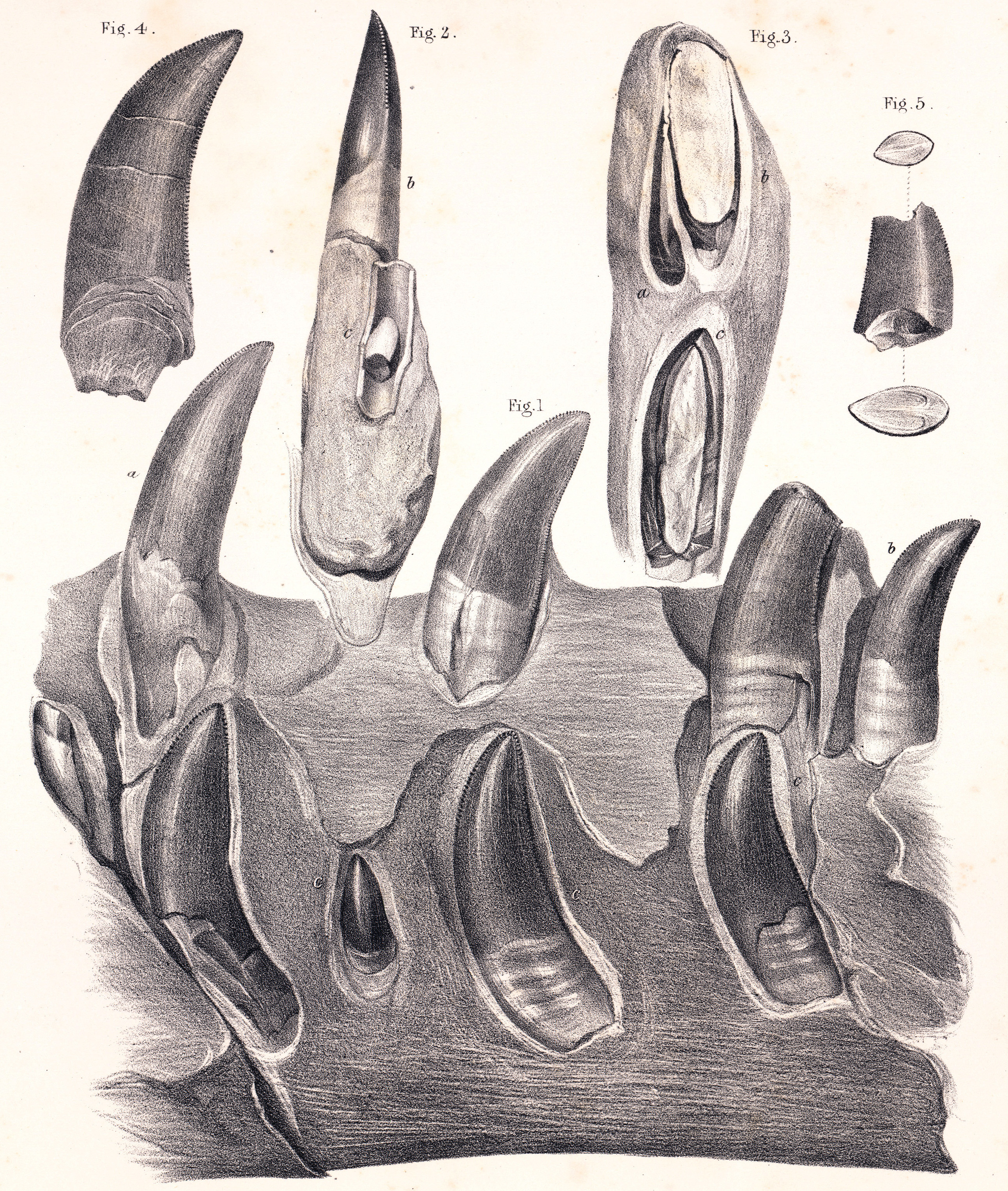 Figs. 1-3. A portion of the mandible with teeth of the Megalosaurus Bucklandi; nat. size. The foregoing figures are taken, with the permission of his Grace the Duke of Marlborough, from a specimen in his Grace's collection, from the Oolitic Slate, of Stonesfield, Oxfordshire. Fig. 4. Side-view of a full-sized tooth of the Megalosaurus. Fig. 5. A portion of a tooth of Megalosaurus, from the Inferior Oolite, of Selsly Hill, Gloucestershire. In the British Museum.